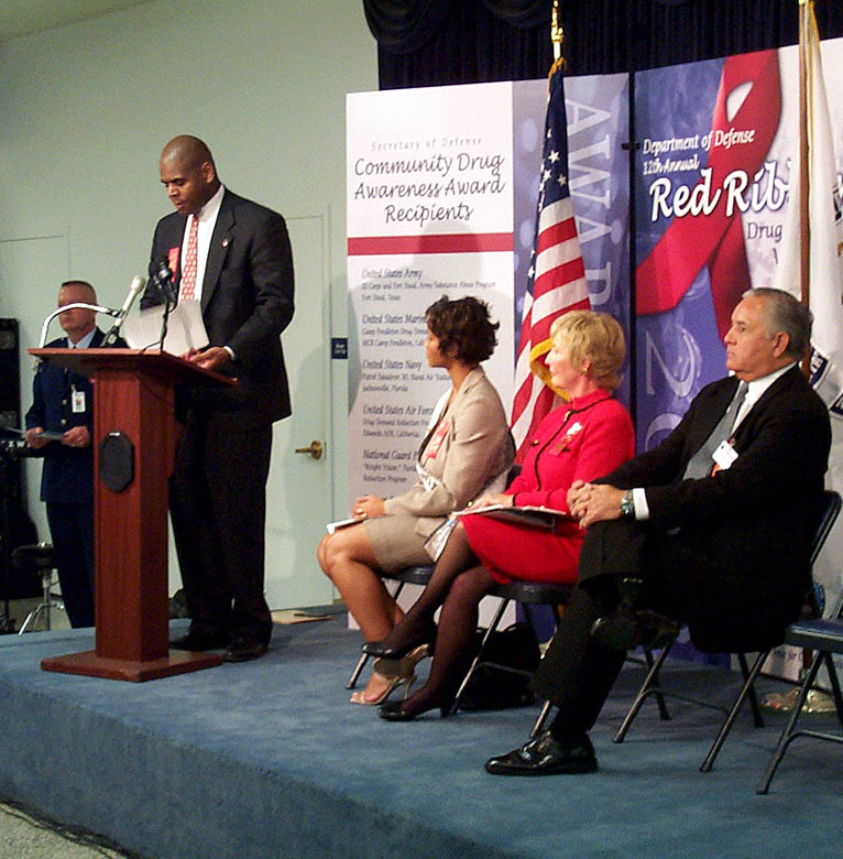 Andre Hollis, deputy assistant defense secretary for counternarcotics, speaks at the opening ceremonies of Red Ribbon Week at the Pentagon Oct. 21, 2002. Joining Hollis are (seated from left) Miss USA Shauntay Hinton, Peggy Sapp from the Partnership for a Drug-Free America, and Texas Rep. Sylvestre Reyes